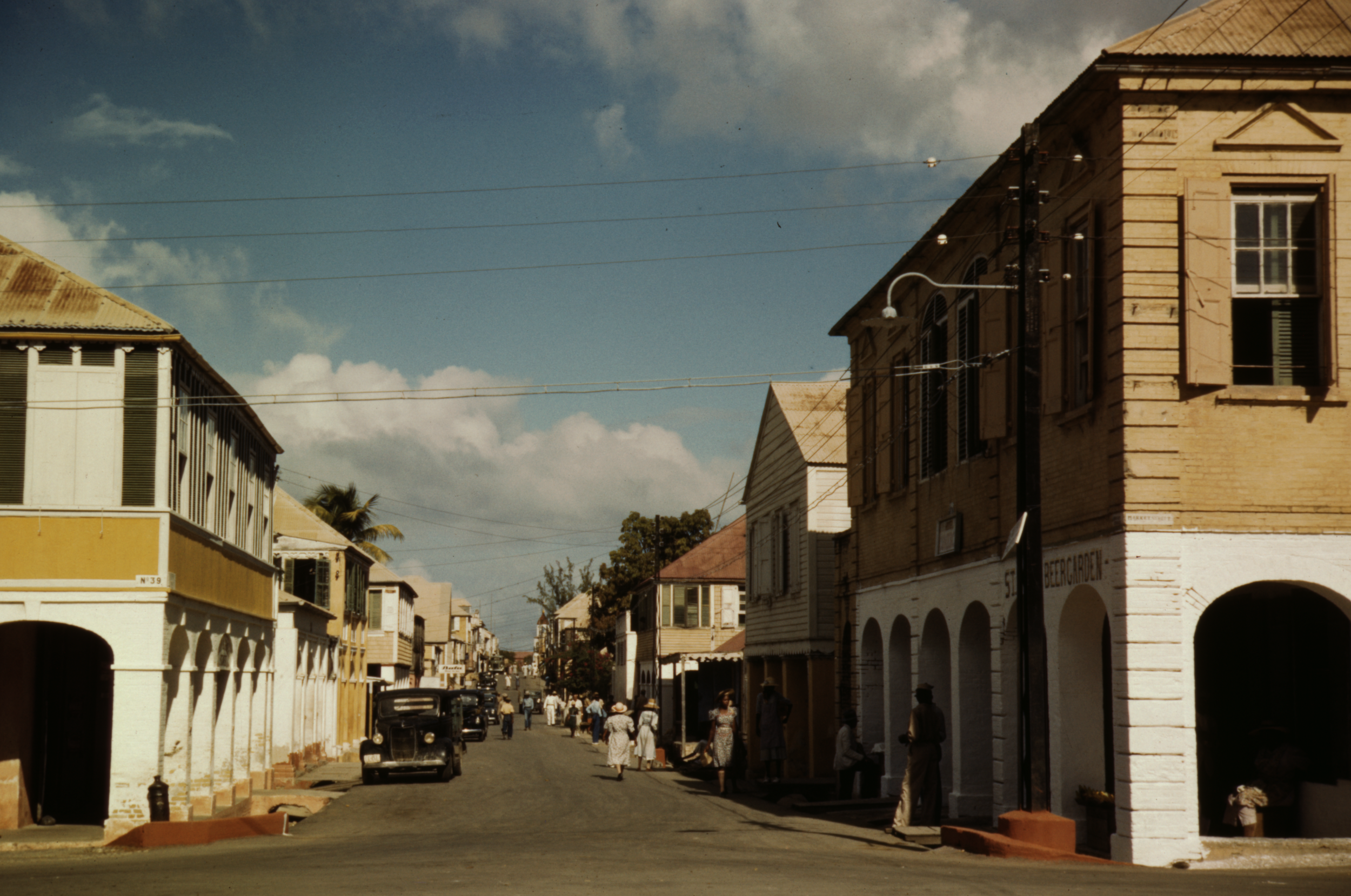 The main shopping street, Christiansted, Saint Croix, Virgin Islands.